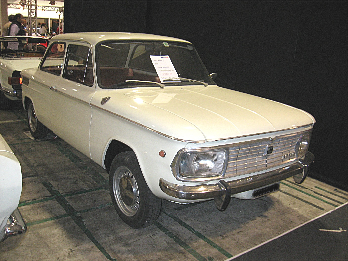 Subject: NSU 1200 C del 1969 Date:October 26th, 2008 Event: Auto e Moto d'Epoca 2008 Place/Country: Padova, Italy I release all rights in the public domain.